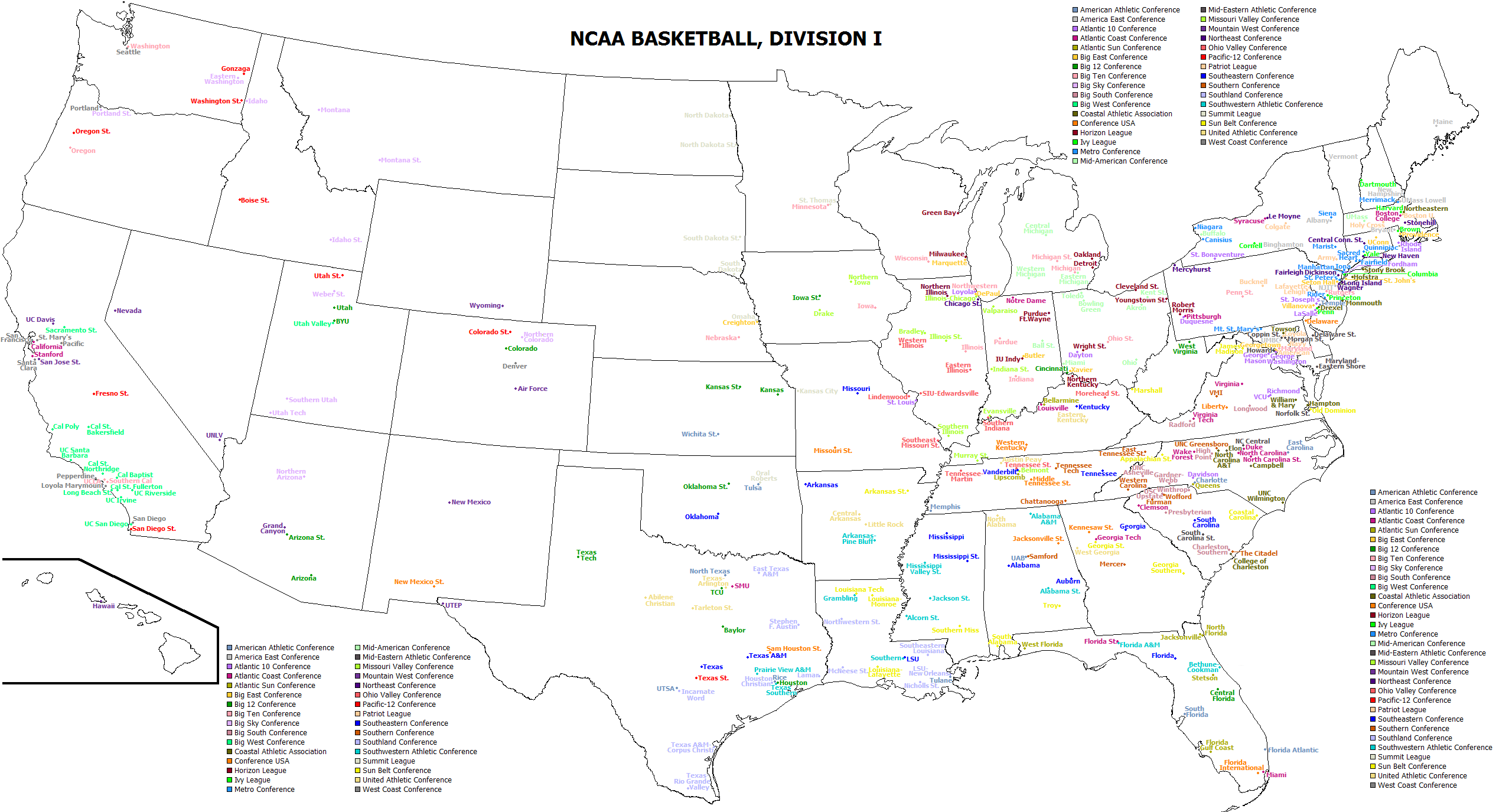 A map of all Division I basketball teams. Note: The Mid-Eastern and MAAC colors are listed incorrectly. MEAC schools are colored dark grey and MAAC schools are blue. Savannah St. is missing from map